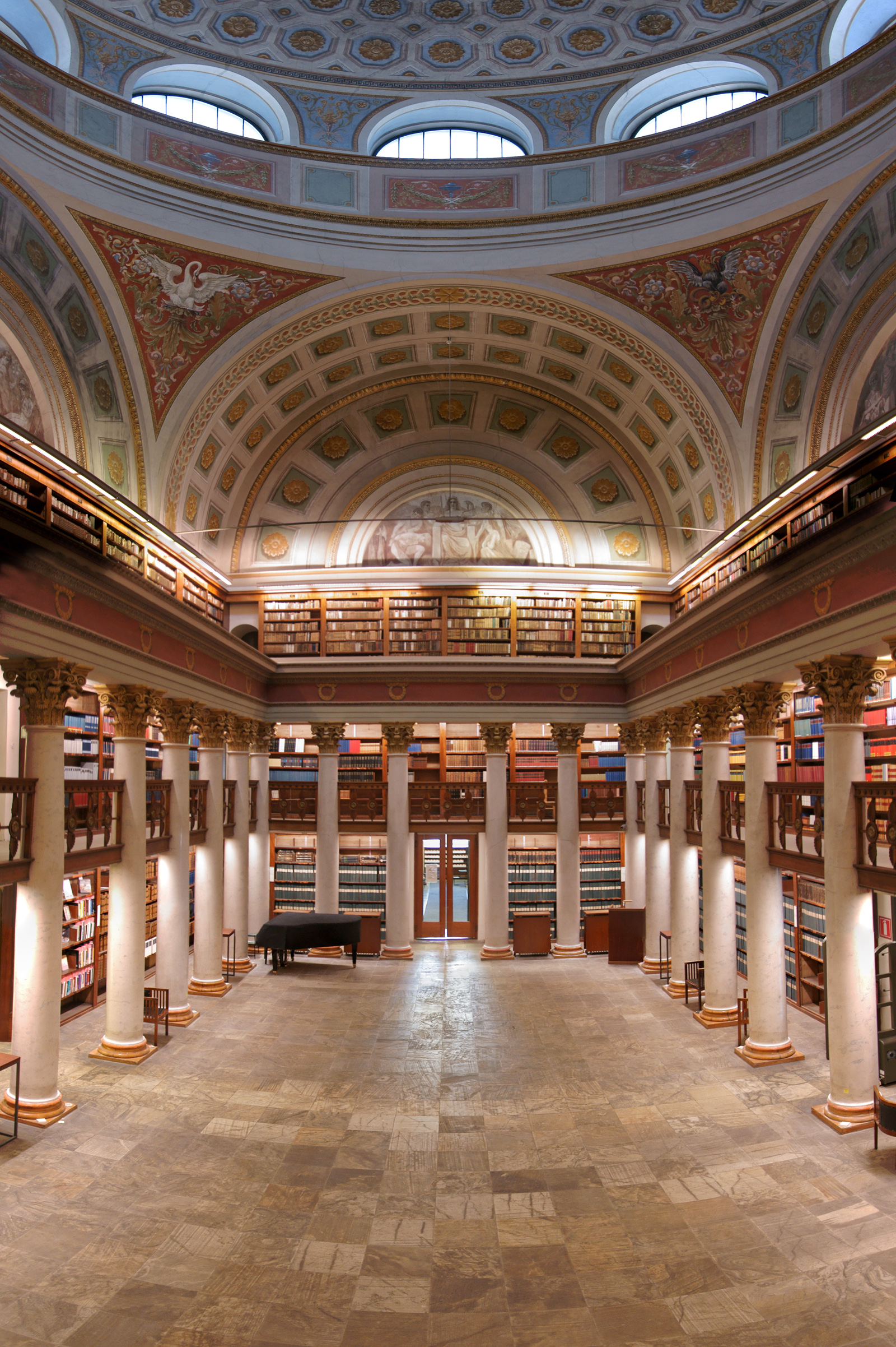 National Library of Finland.